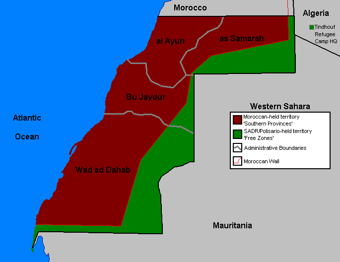 Map of Western Sahara demarcation since 2006